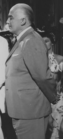 Víctor Martucci-actor argentino